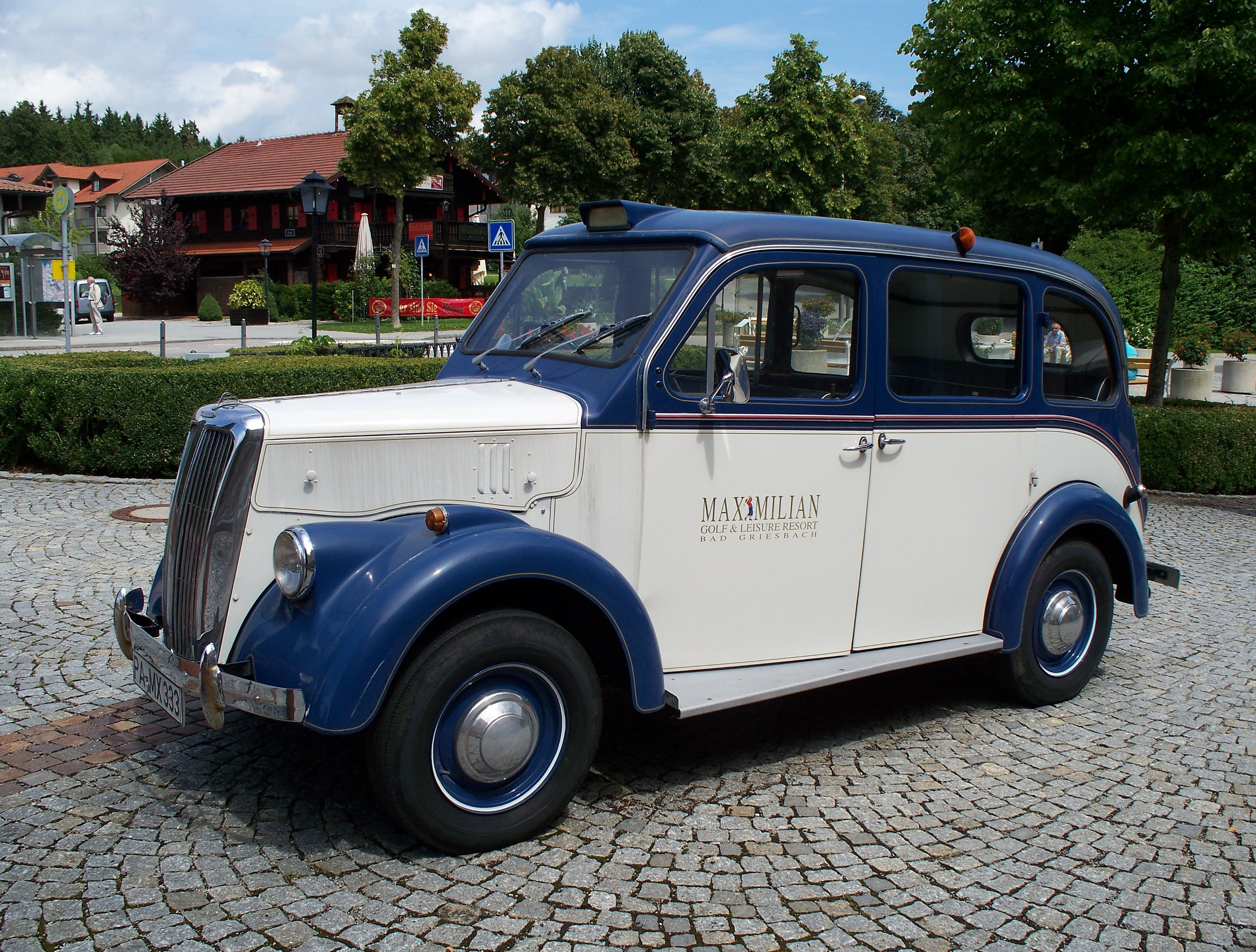 Beardmore 'London' Taxi as a promotion vehicle of a hotel in spa town Bad Griesbach in Bavaria, Germany.